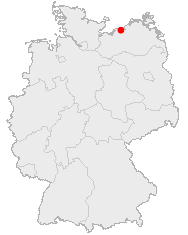 Credit: Arne Klempert & Thomas Mack License: LGPL